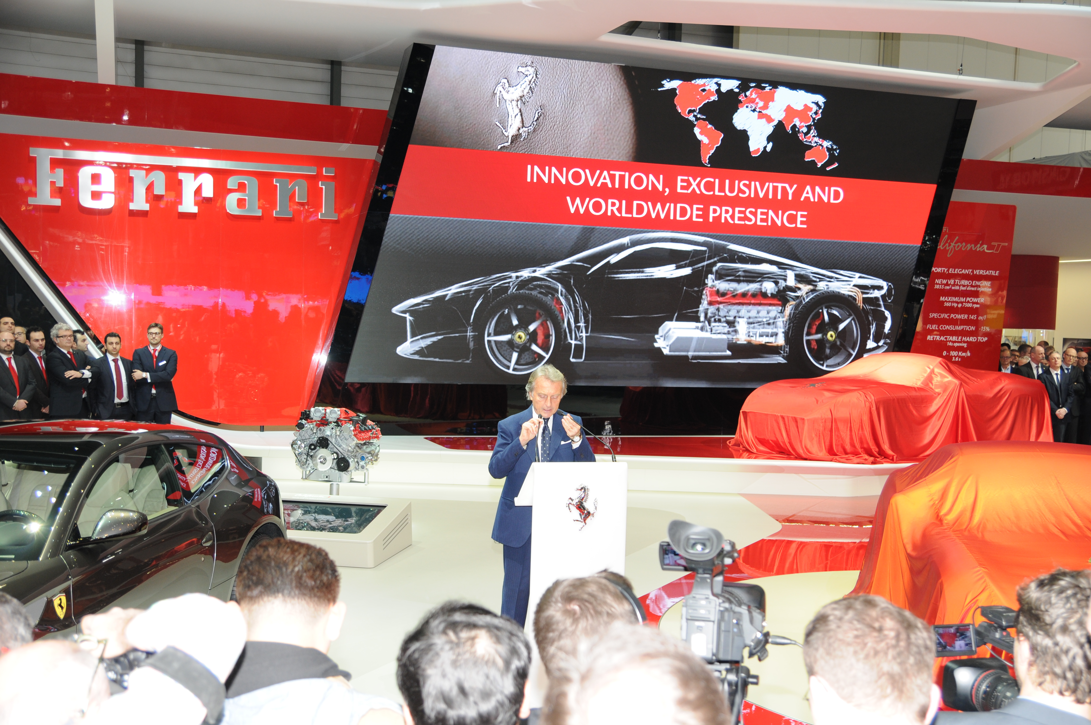 Geneva Motor Show 2014 (photo taken on the first press day)